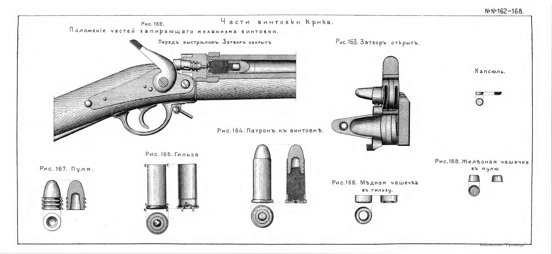 Russian Army Krnka rifle (1869)